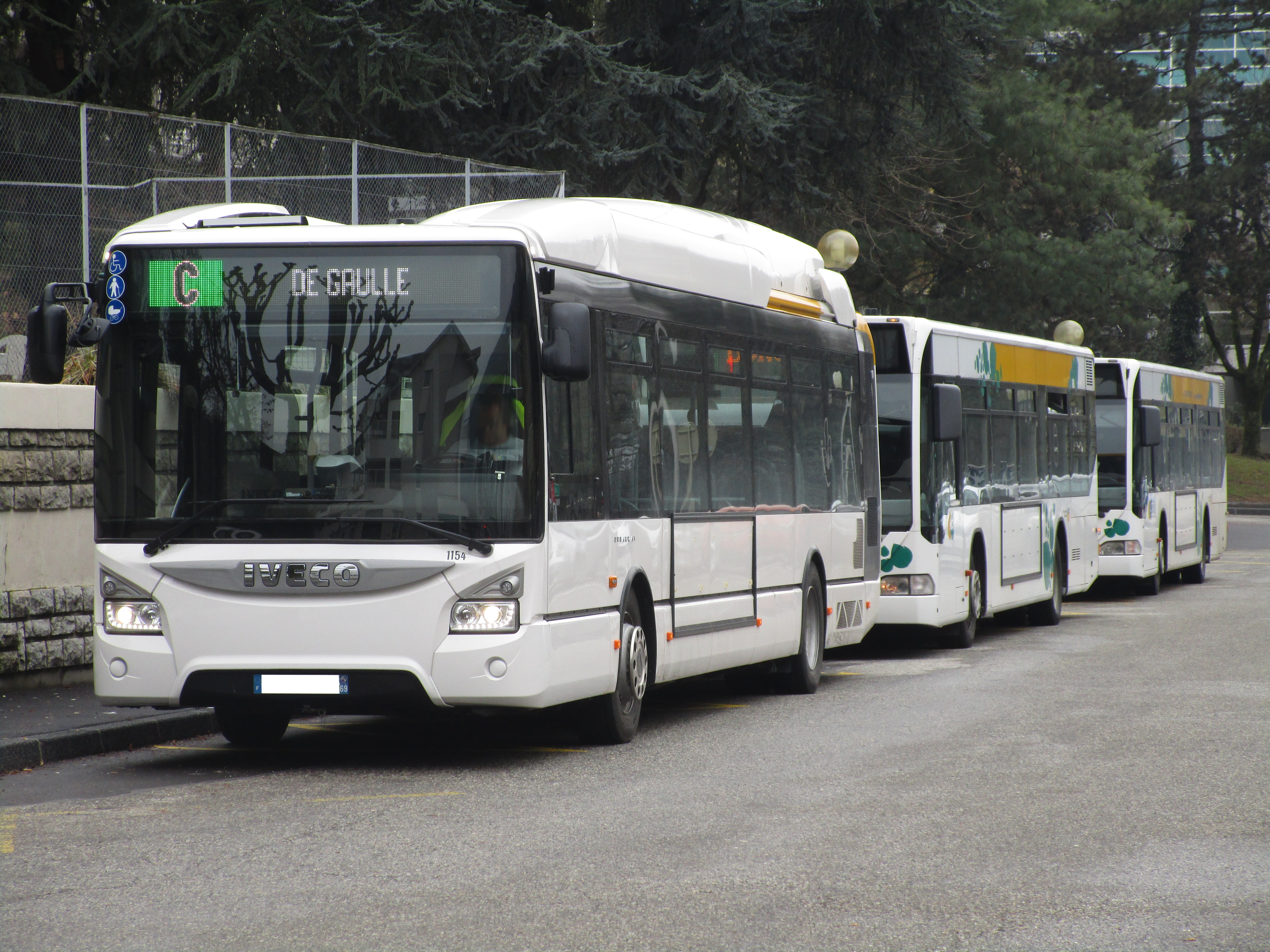 The bus Iveco Urbanway 12 Hybrid (N°1154) under trials on the bus network of the STAC and two buses Mercedes-Benz Citaro C1 of the STAC, on the line Chrono C (Challes Centre, Challes-les-Eaux↔De Gaulle, La Motte-Servolex), at the call Challes Centre in Challes-les-Eaux on February 9, 2017.